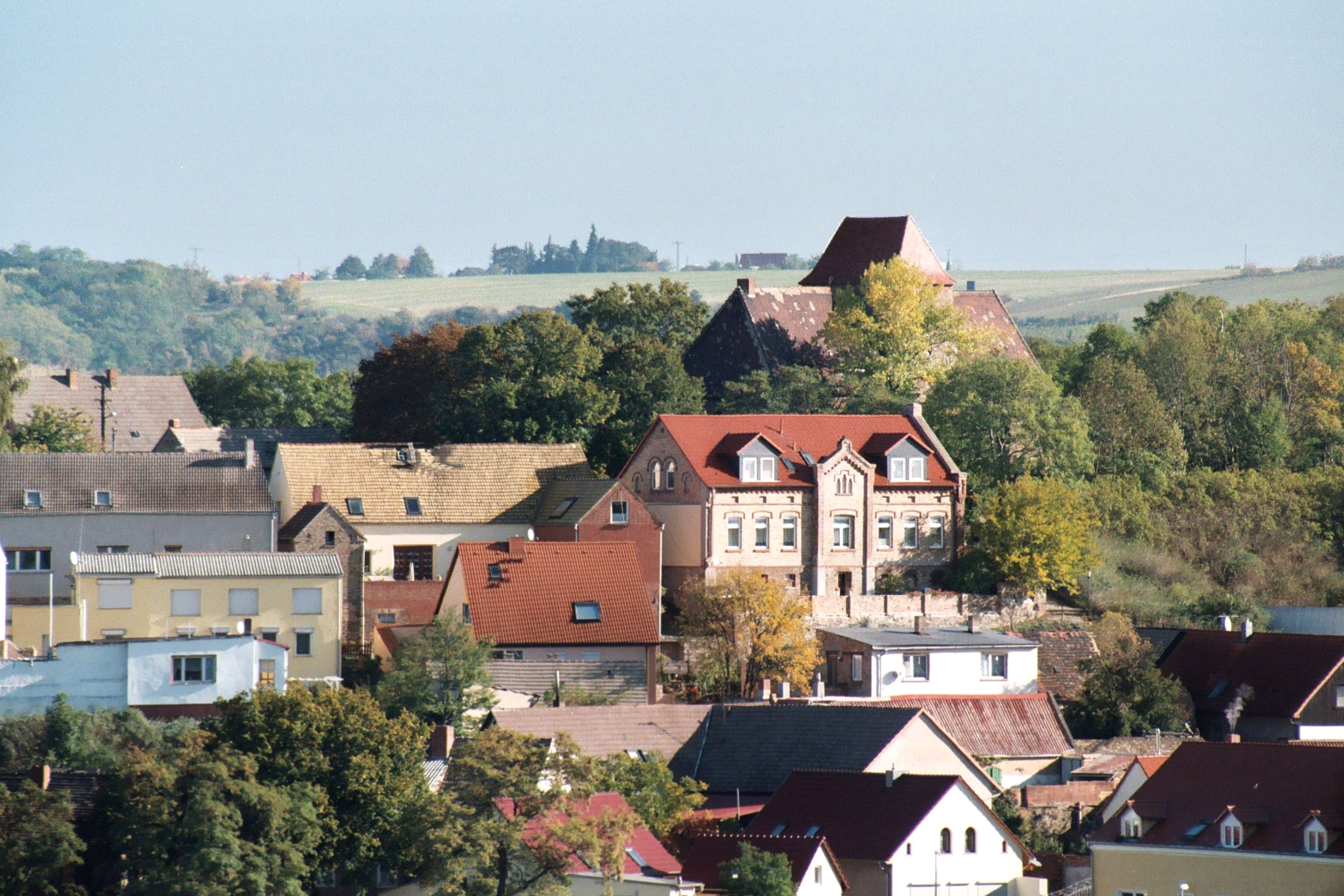 Seeburg (Seegebiet Mansfelder Land), view to the village church (telephoto)